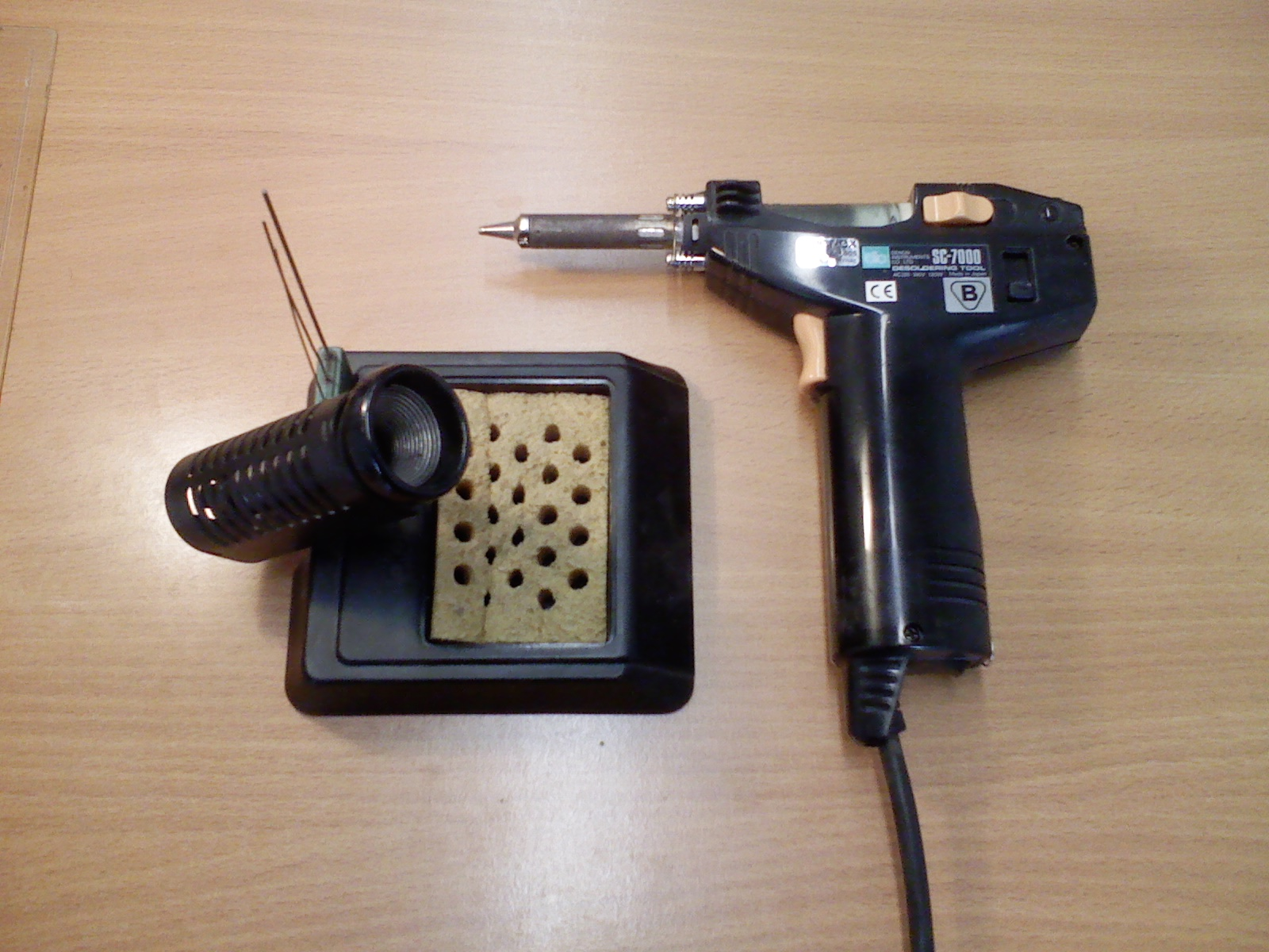 Desoldering gun made by dic (De-on Instruments Co.).